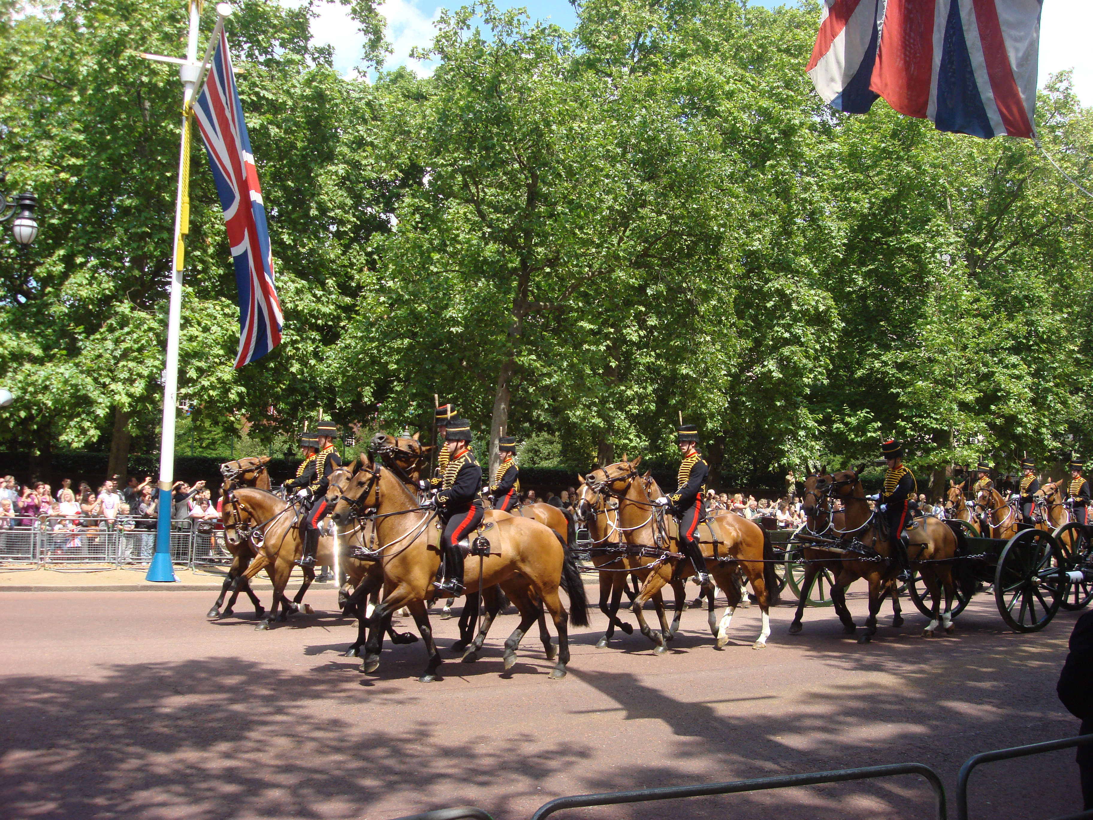 Trooping the Colour 2009